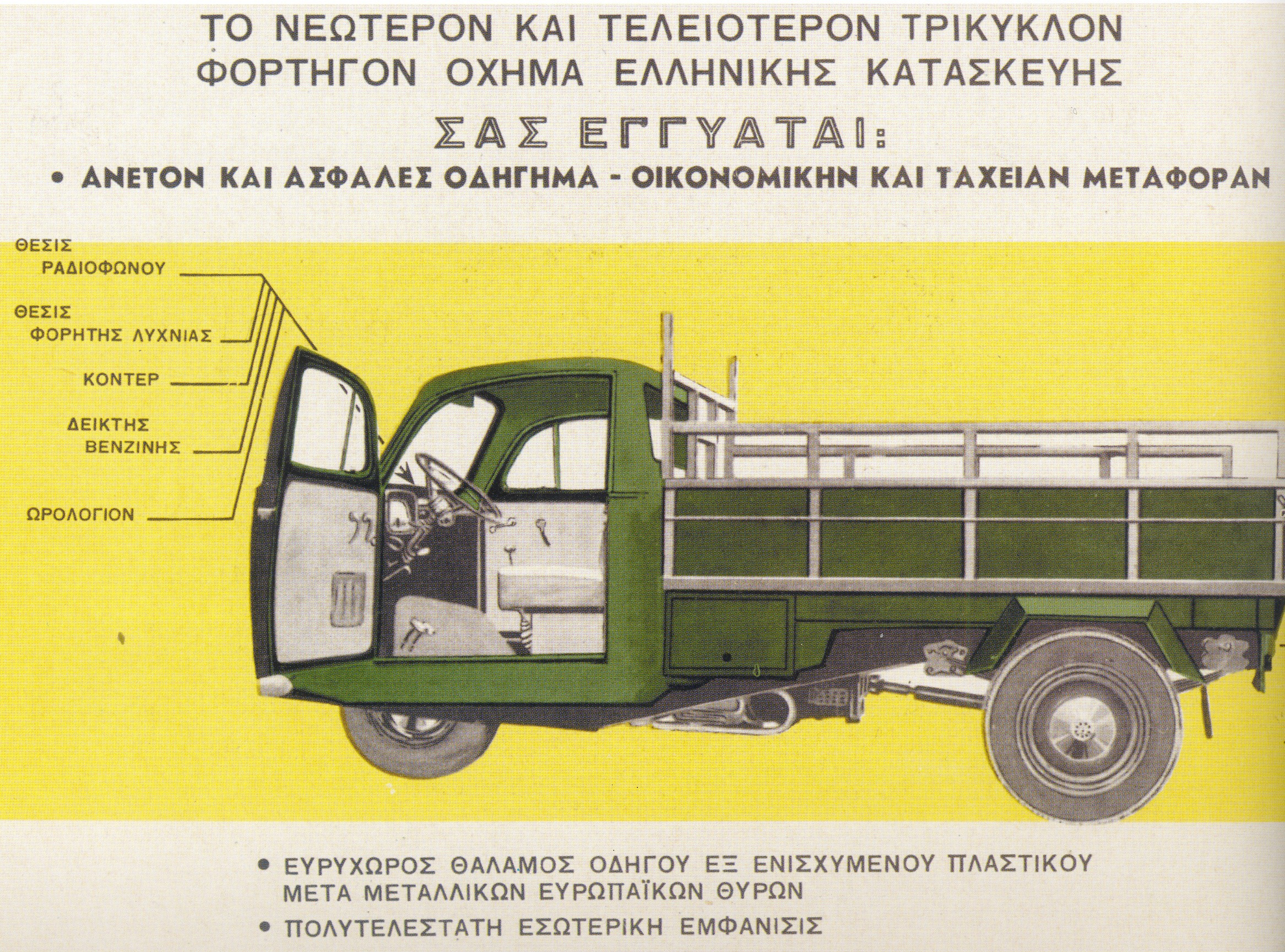 Image depicting part of a brochure for the Atlas 1200 P/3 truck model. From my own book "Made in Greece" (Typorama, Patras 2003). A very rare image, created by the company itself and used to depict the vehicle. It can be reproduced (please cite Wikipedia).